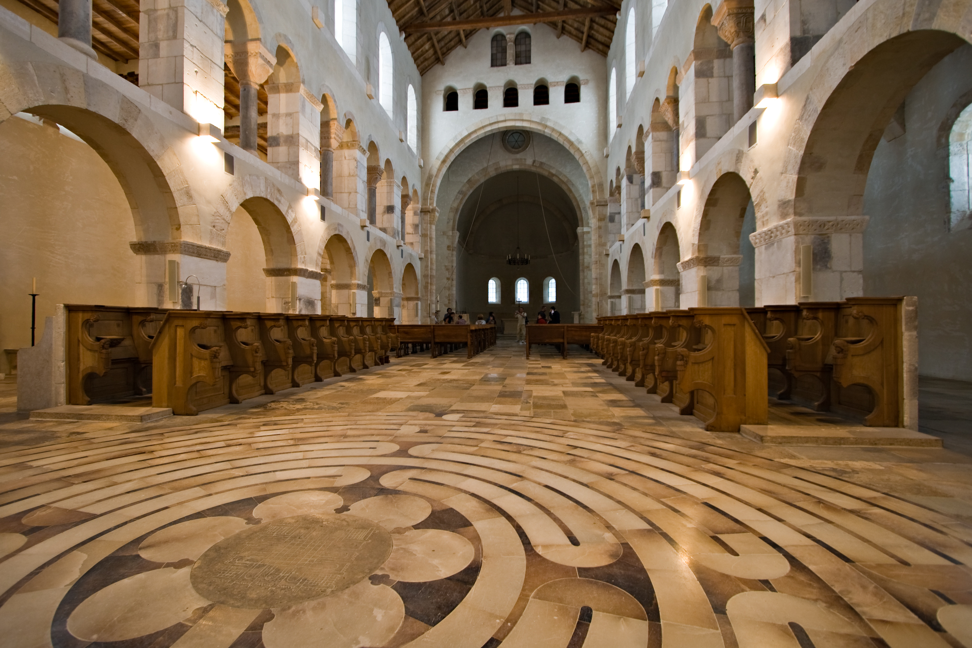 The abbey church of the Trappists Fathers of Rochefort, Abbey of Our Lady of Saint-Remy, Wallonia, Belgium. The Abbey is the way of life of a community of Trappists monks (Cistercian Order of the Strict Observance) well known for their seclusion.